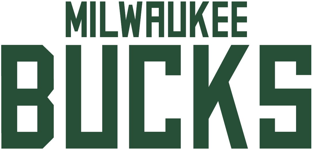 The current wordmark logo for the Milwaukee Bucks. First used beginning with the 2015–16 NBA season.